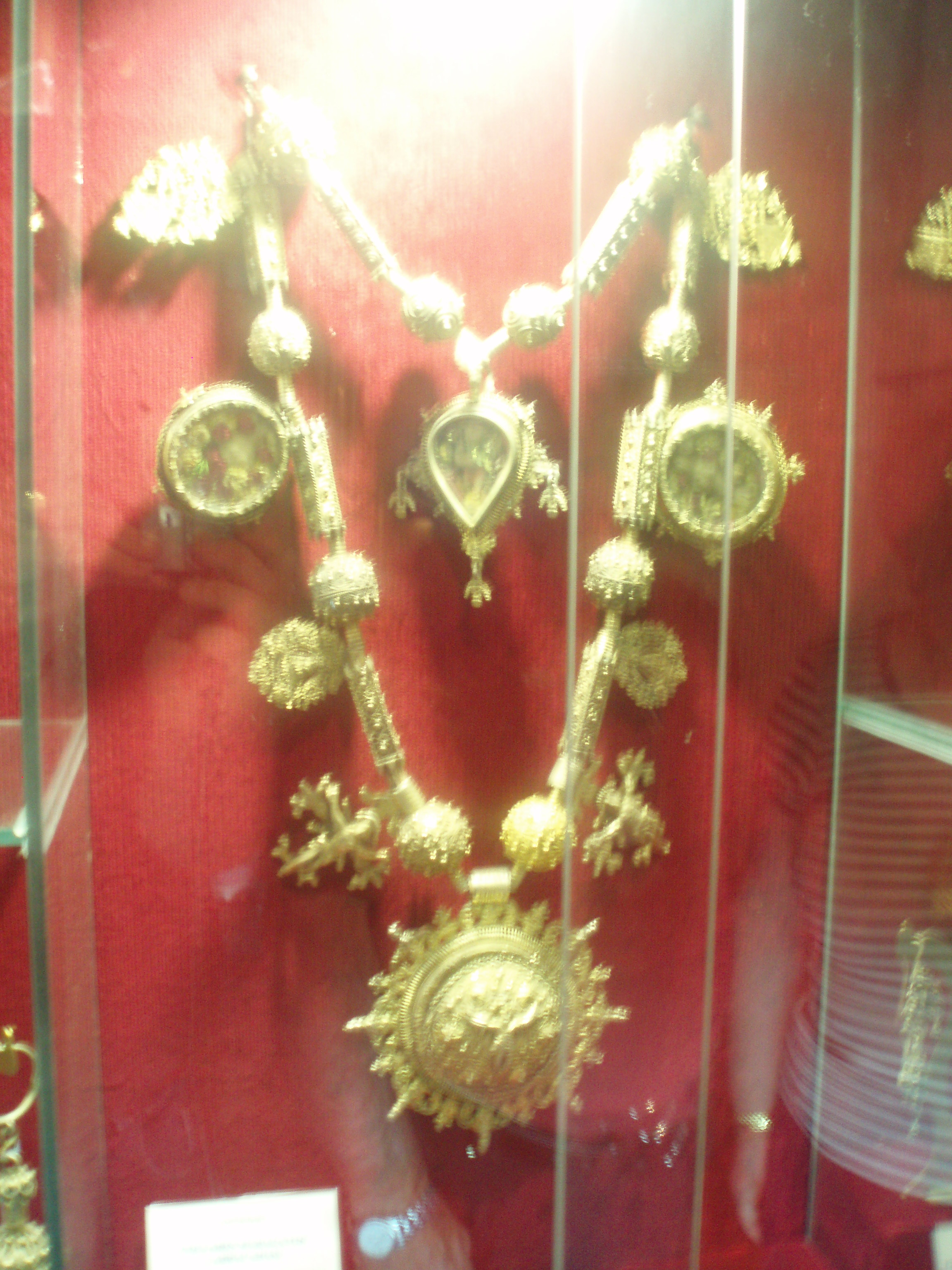 Cathedral of Astorga, in province of Leon. (Spain).